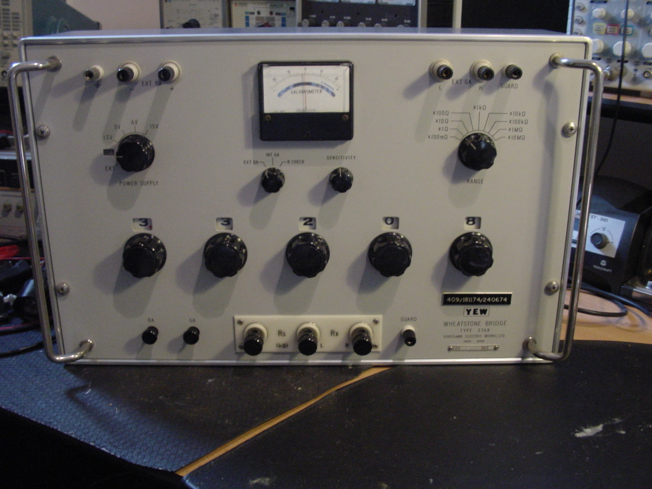 Wheatstone bridge made by Yokogawa Electric Works wih an accuracy of 0.01-0.05 %